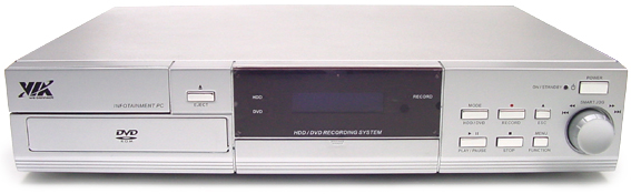 VIA Infotainment PC (front)